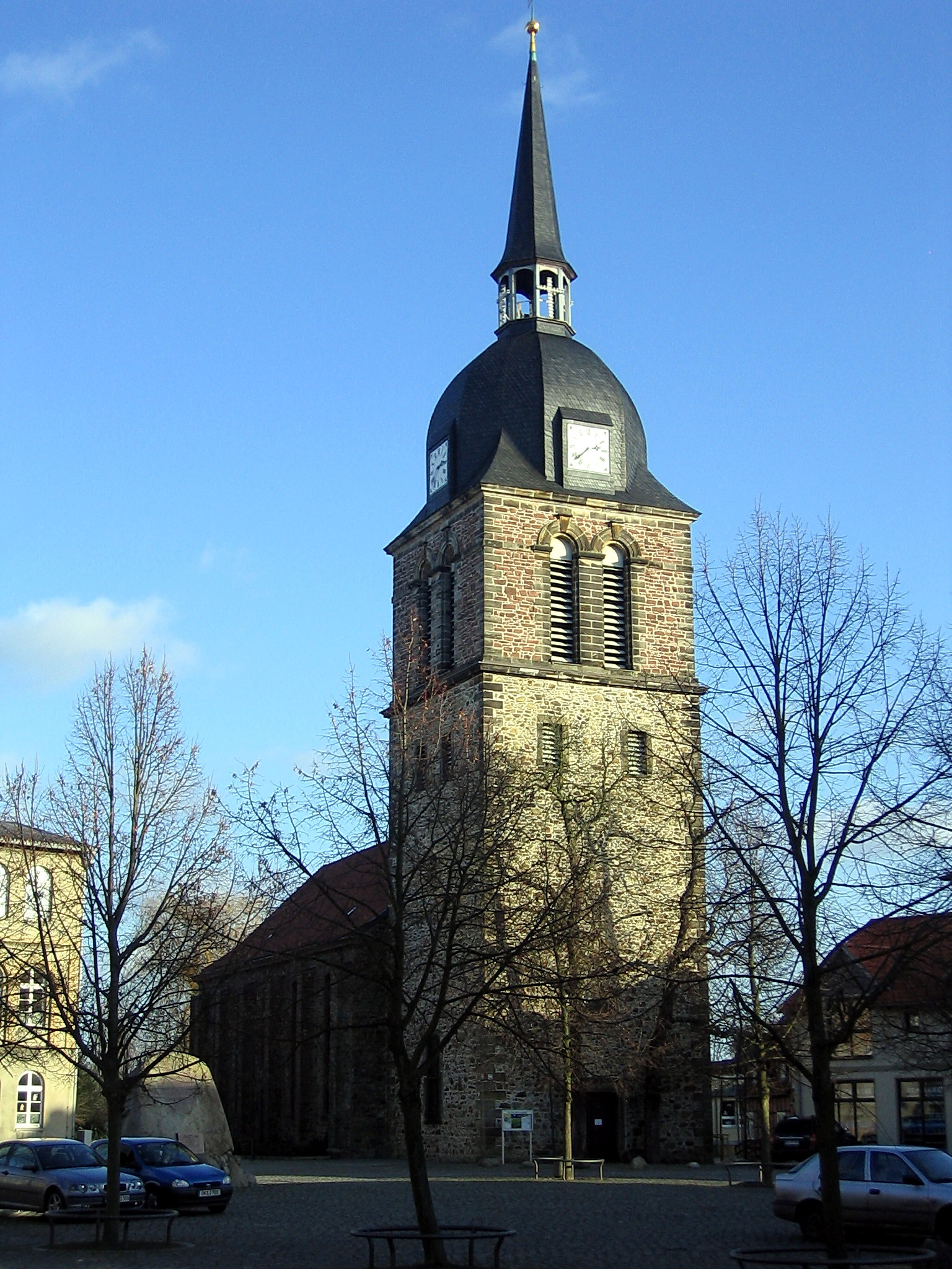 The Evangelical Lutheran St. George Church in Calvörde, Saxony-Anhalt, Germany, is owned and used by a congregation within Evangelical Lutheran State Church in Brunswick.